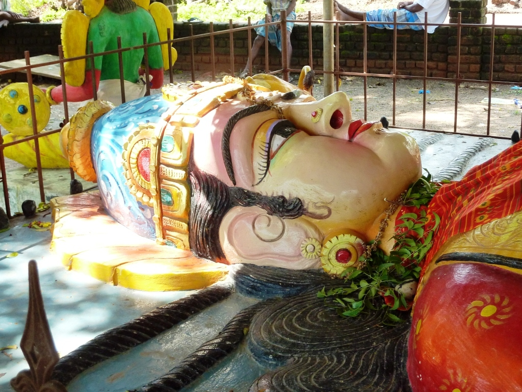 I took this photo myself on my trip to Tamil Nadu last year.